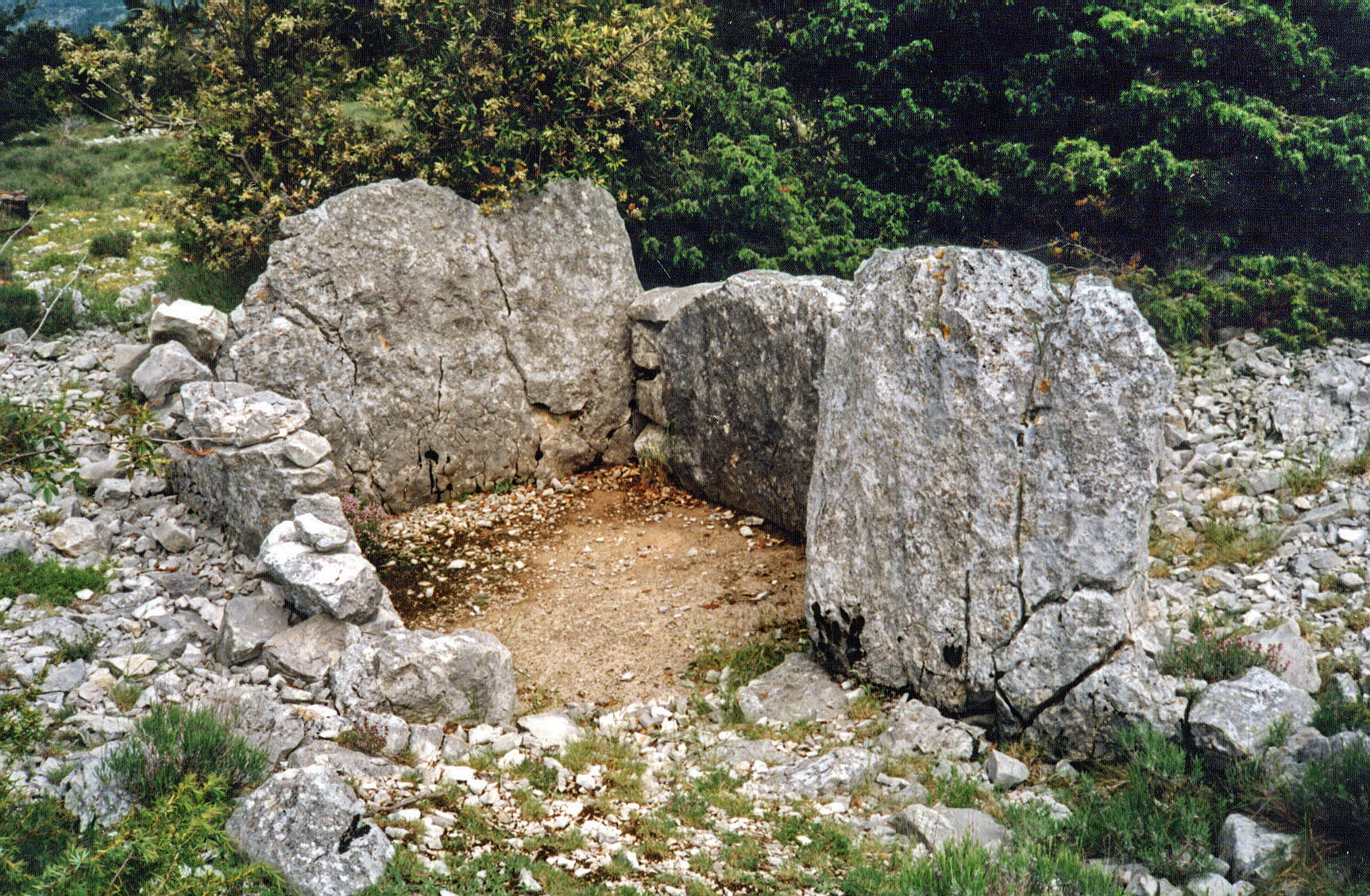 Mons(Var): Dolmen of "La Colle" in Mons(Var)